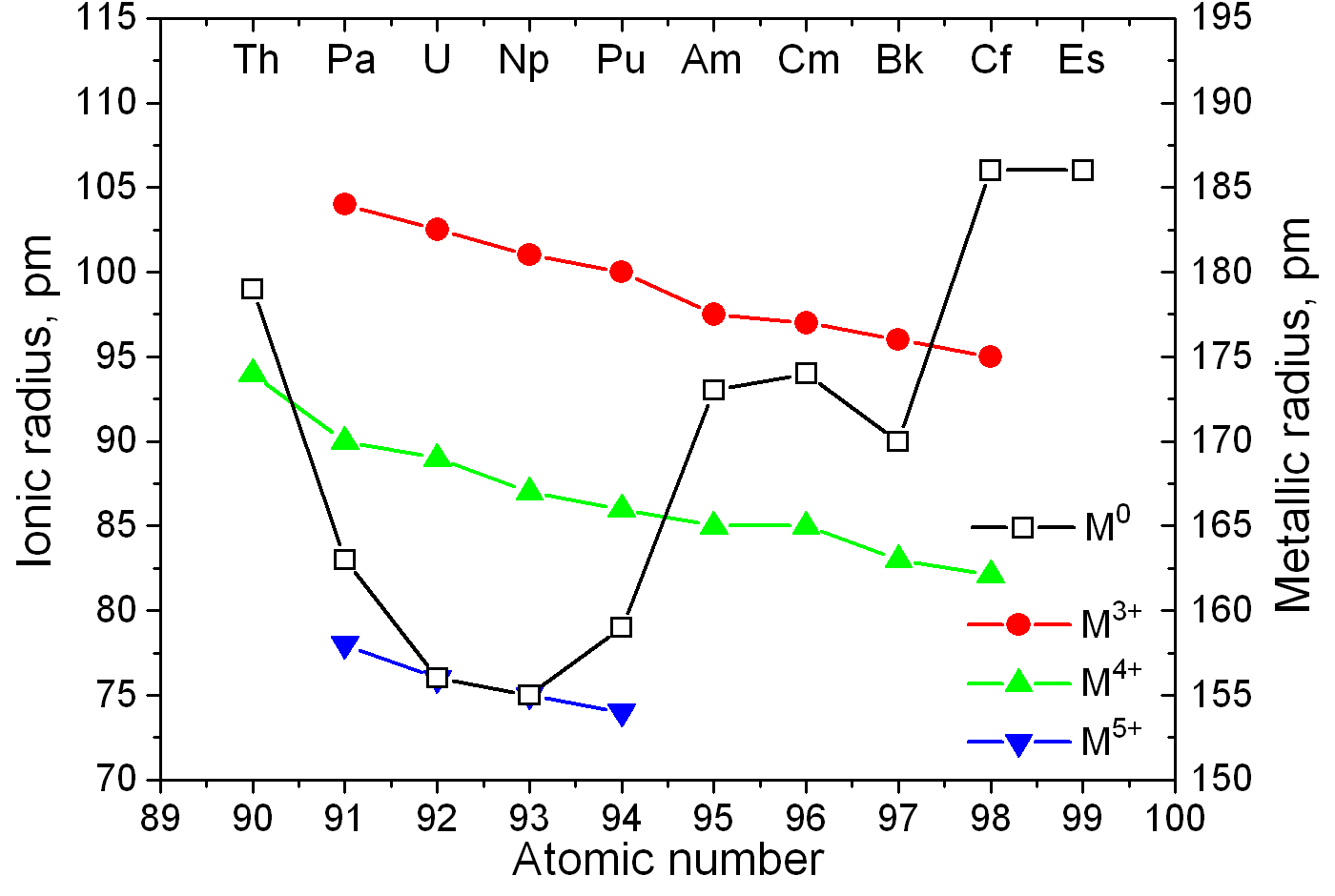 Metallic and ionic radii of some actinides. From Greenwood, Norman N.; Earnshaw, A. (1997), Chemistry of the Elements (2nd ed.), Oxford: Butterworth-Heinemann, ISBN 0080379419 p. 1263